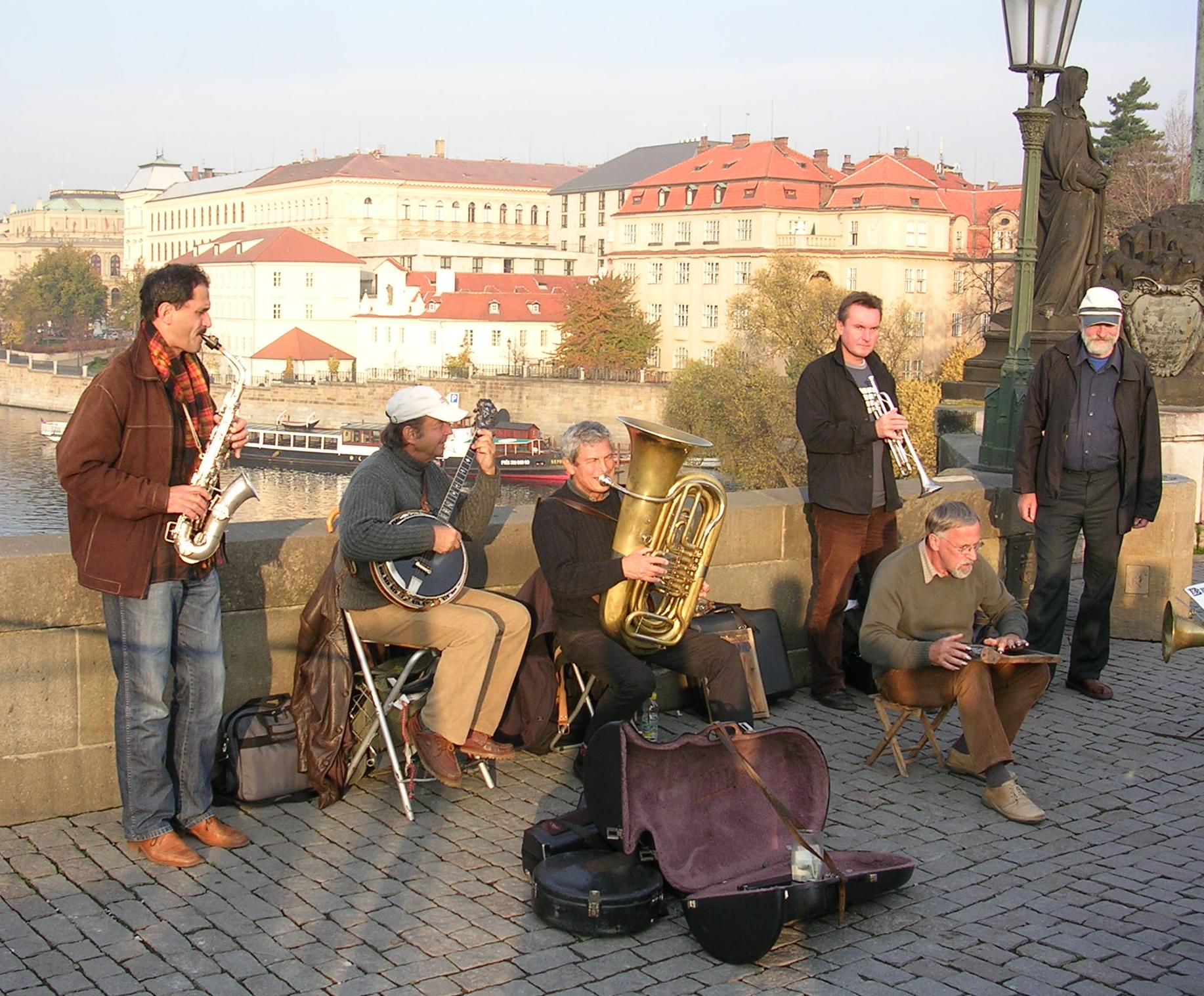 Old Town, Prague. Charles Bridge, “Bridge Band”.